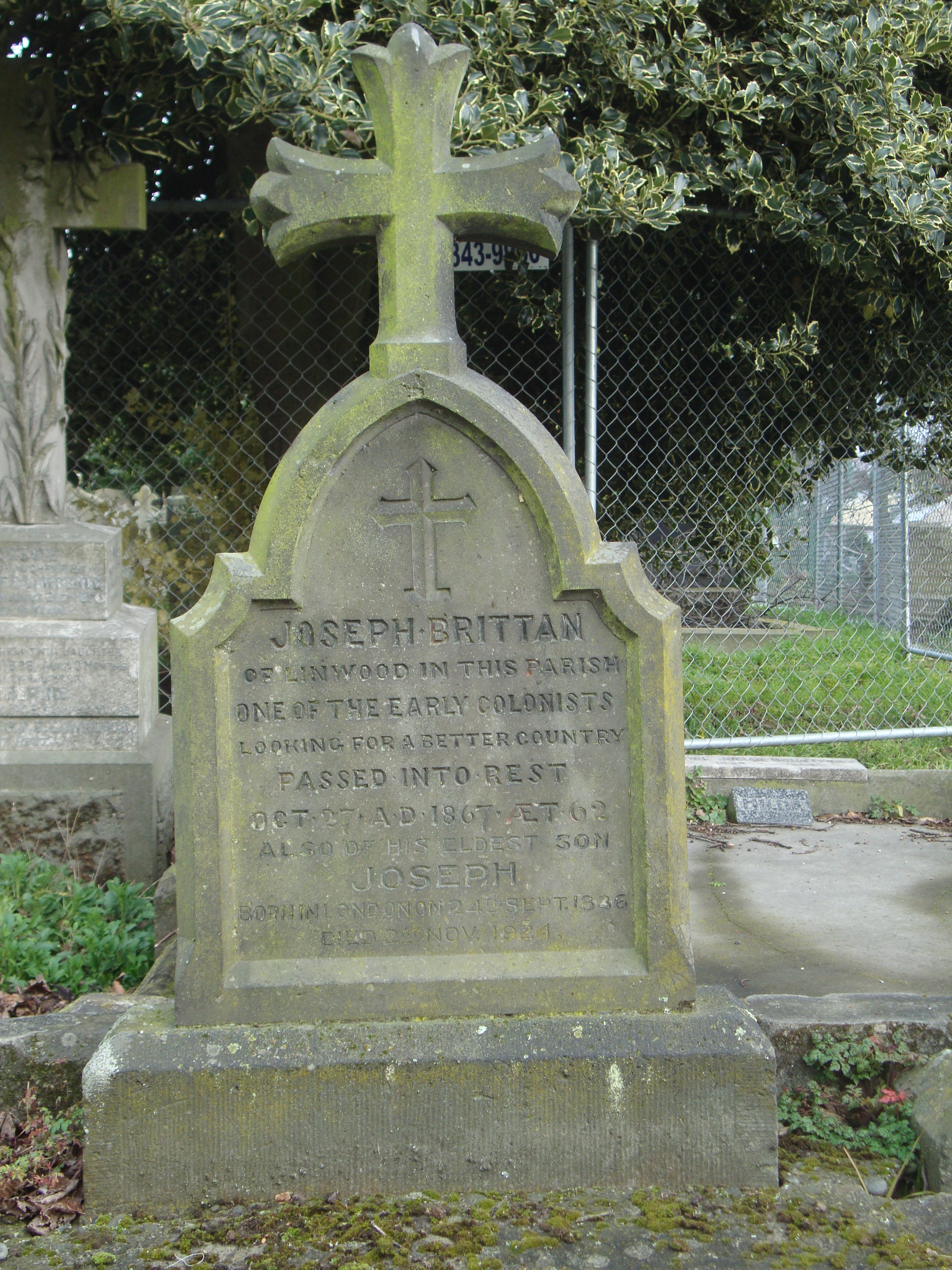 Grave of Joseph Brittan. Inscription: Joseph Brittan Of Linwood in this Parish One of the early Colonists Looking for a better country Passed into rest Oct 27 AD 1867 AET 62 Also of his eldest son Joseph Born in London 24th Sept. 1836 Died 2 Nov. 1924